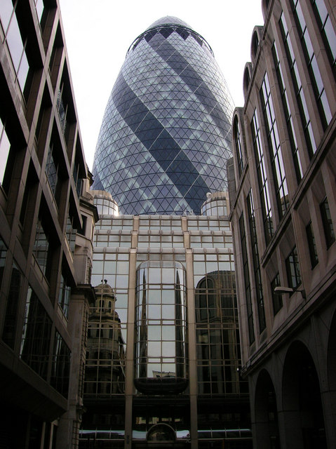 Bury Street EC4